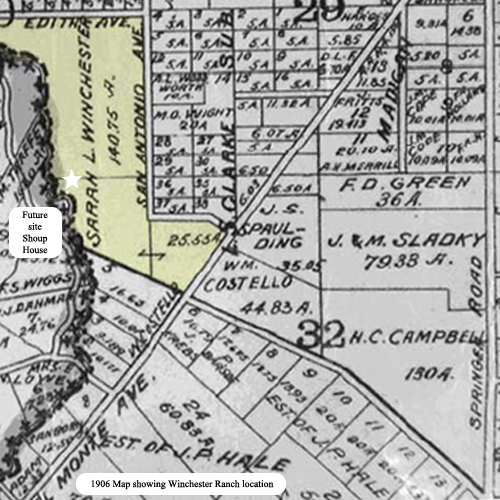 1906 Tract Map of Mountain View, California showing site of Winchester Ranch: future site of Los Altos.